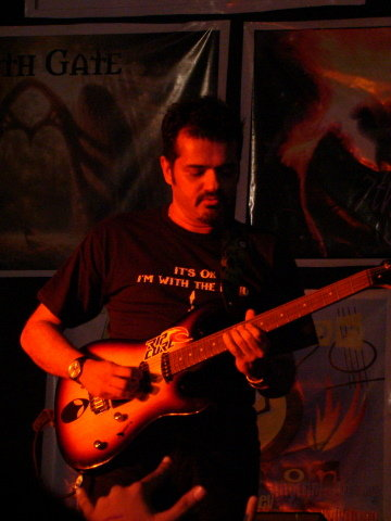 Ehsaan Noorani performing at the Cathedral and John Connon School in 2008.